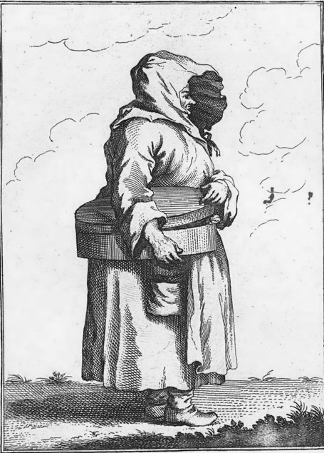 Swedish pedlar Bakelse-Jeanna (1702-1788)